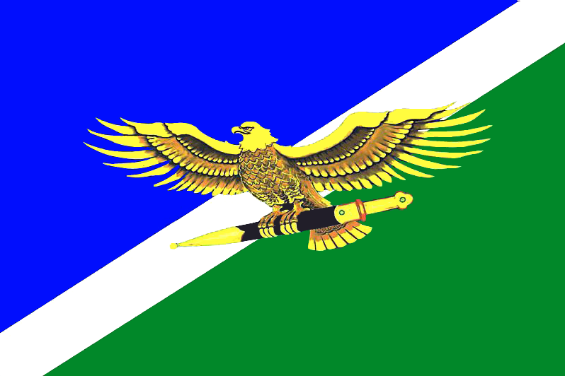 Flag of Dahadaevsky rayon, Dagestan, Russia